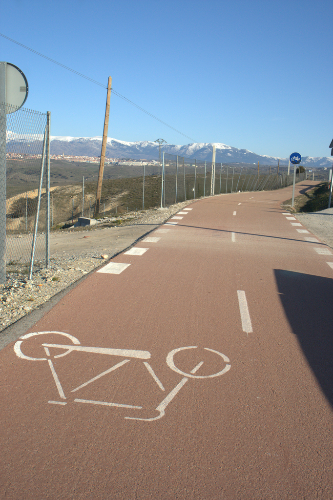 bycicle lane from Madrid to Colmenar Viejo. The village is in front of the mountains.